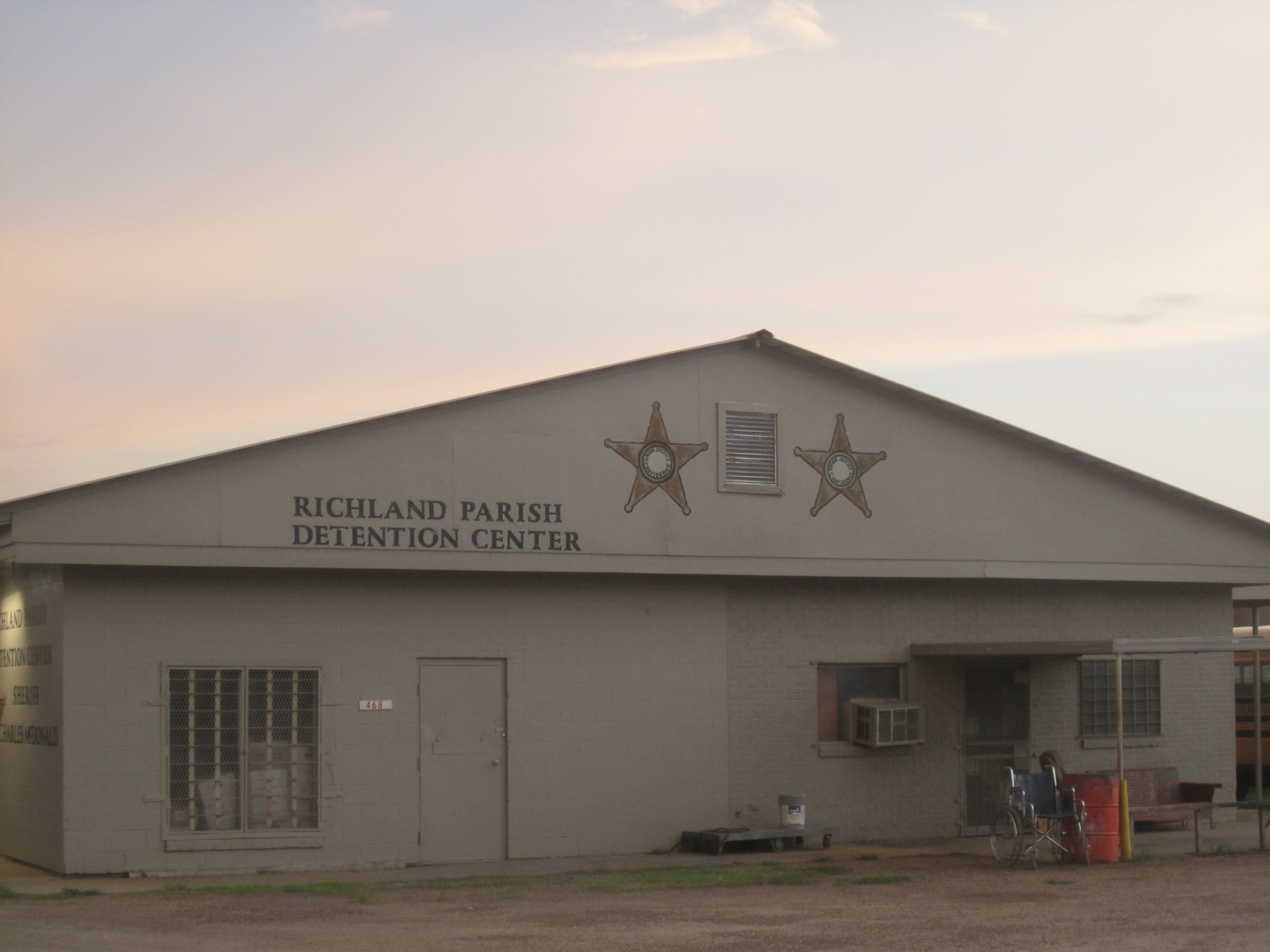 I took photo with Canon camera in Richland Parish, LA.